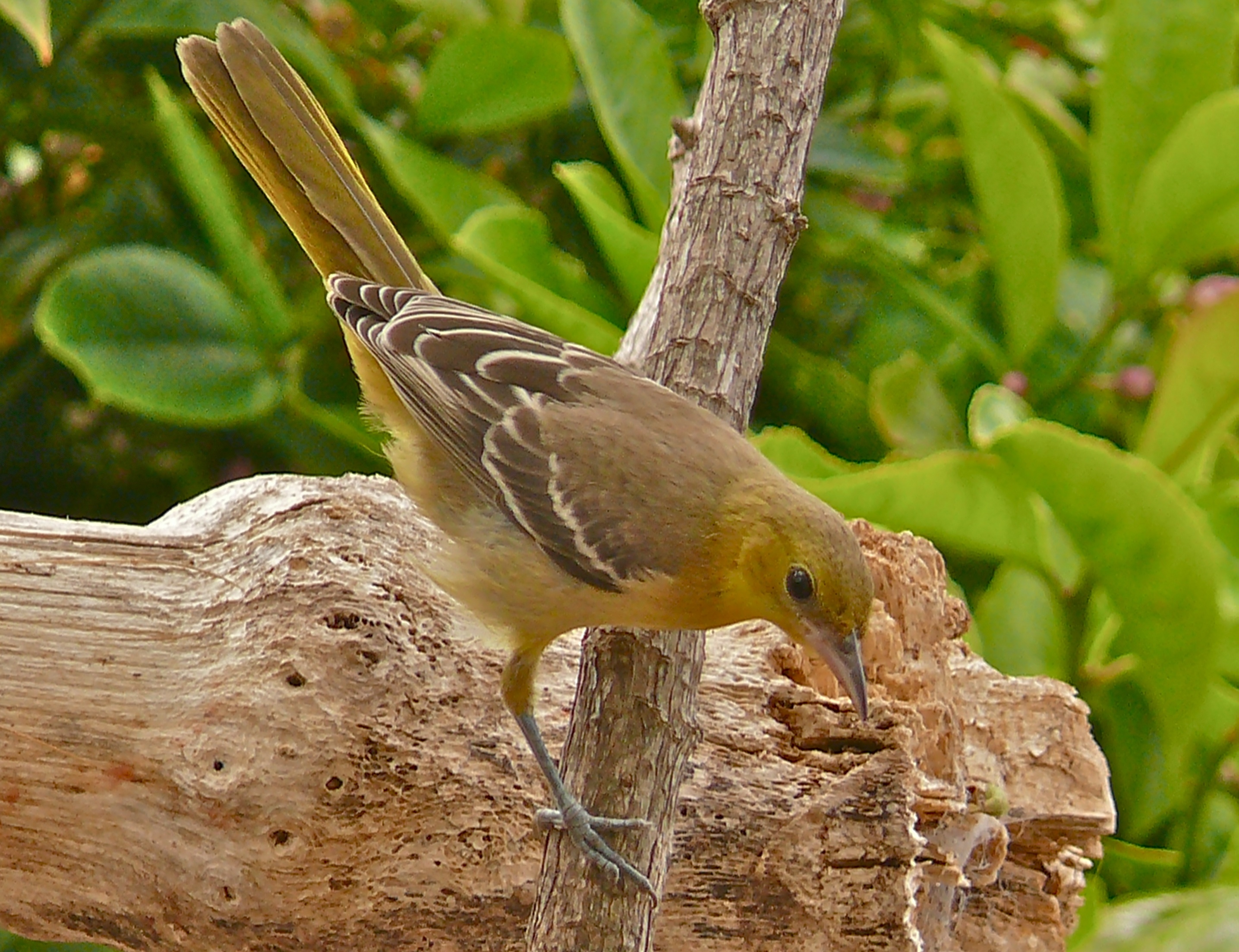 A juvenile Hooded Oriole at Morro Bay, California, USA.